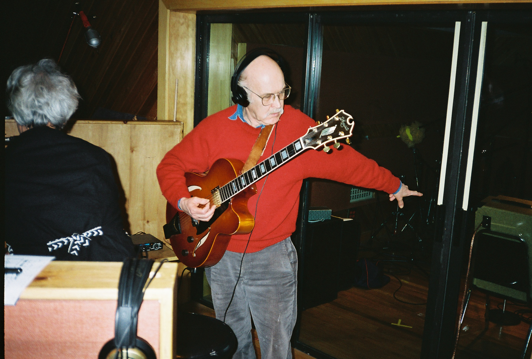 Jim closing the door to the room where his amp speaker was miced.